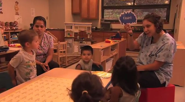 Kituwah Academy on the Qualla Boundary in North Carolina. The Kituwah Preservation & Education Program includes a language immersion school operated by the Eastern Band of Cherokee Indians. The school teaches the same curriculum as other primary schools, but the Cherokee language is the medium of instruction and students learn it as a first language. Other information Children are between the ages of seven months and seven years. All are members of the Eastern Band of Cherokee Indians based on the Qualla Boundary, North Carolina.